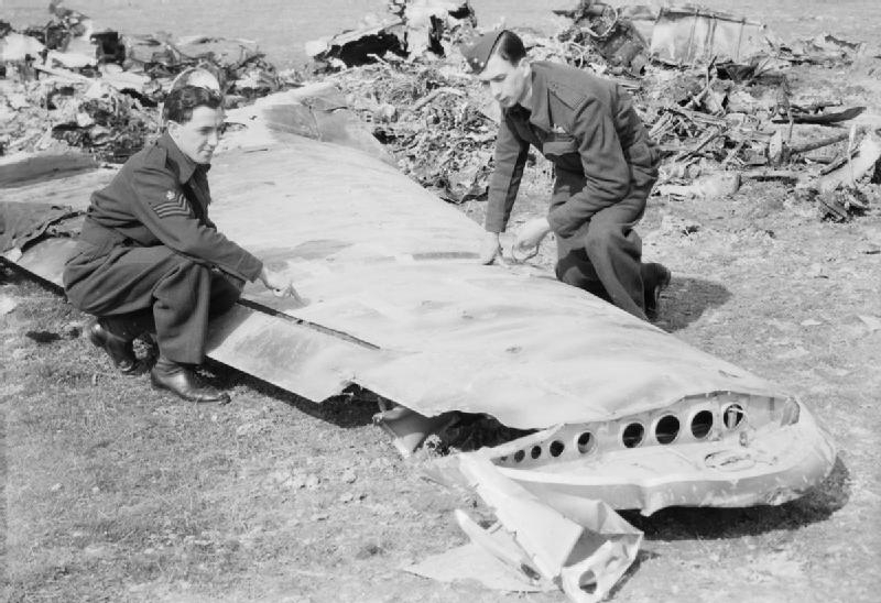 Royal Air Force 1939-1945- Fighter Command Pilot Officer J Allen (right) and Flight Sergeant W Patterson, a No 96 Squadron Mosquito crew based at West Malling, survey the wreckage of the Ju 88 which they shot down near Cranbrook in Kent on the night of 18-19 April 1944. The Junkers was one of eight enemy bombers destroyed by RAF night-fighters that night, during the last Operation Steinbock raid on London. The Ju 88A-4 belonged to 6 staffel KG 6 (Kampfgeschwader 6). The machine was code 3E+BP Werknummer 2537. Unteroffizier Helmut Barbauer and Unteroffizier Friedrich Schork were taken prisoner. Hugo Muhlbauer and Fritz Gotze were killed (see Ron McKay, Operation Steinbock.